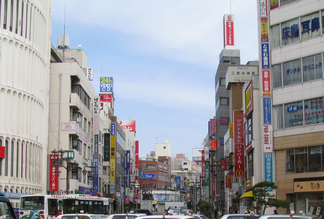 Motoyawata station on JR Sobu Main Line